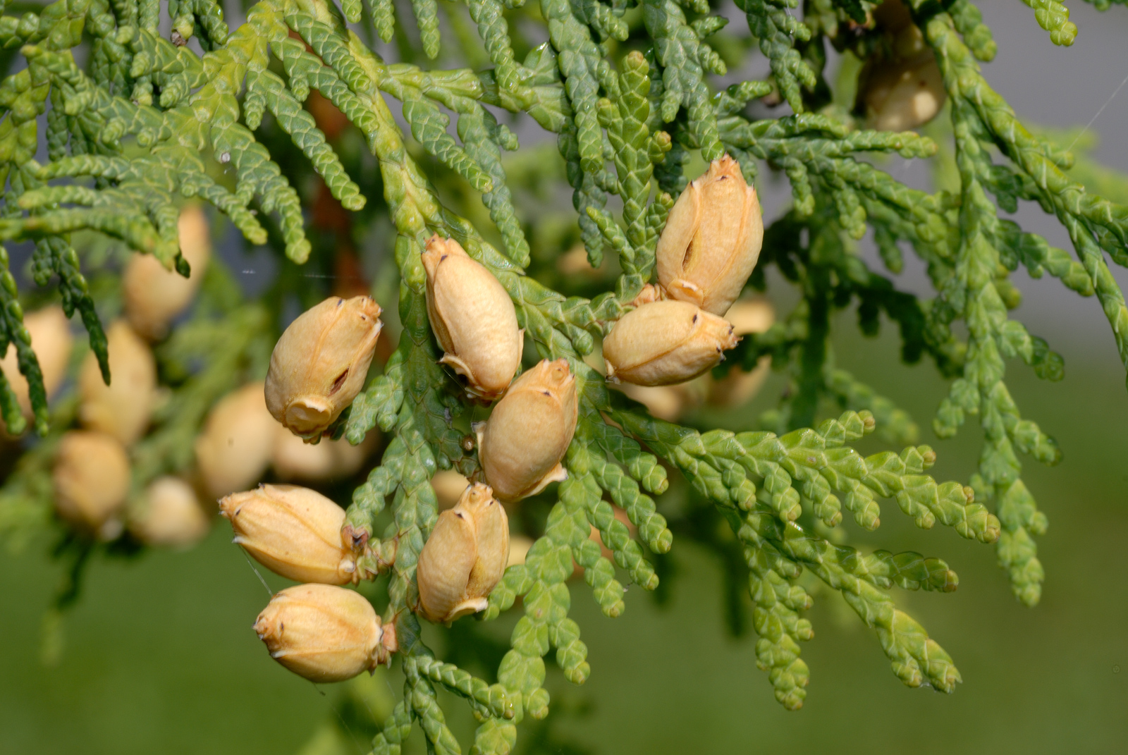 This image shows the a plant of the species Thuja occidentalis.